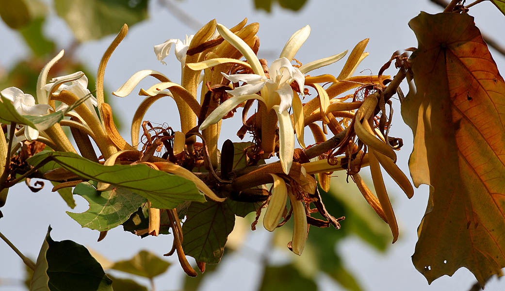 Pterospermum acerifolium - Kanak Champa, Moochukund, Bayur tree, Dinner Plate Tree, Karnikar Tree or Maple-Leafed Bayur Tree near Hyderabad, India.